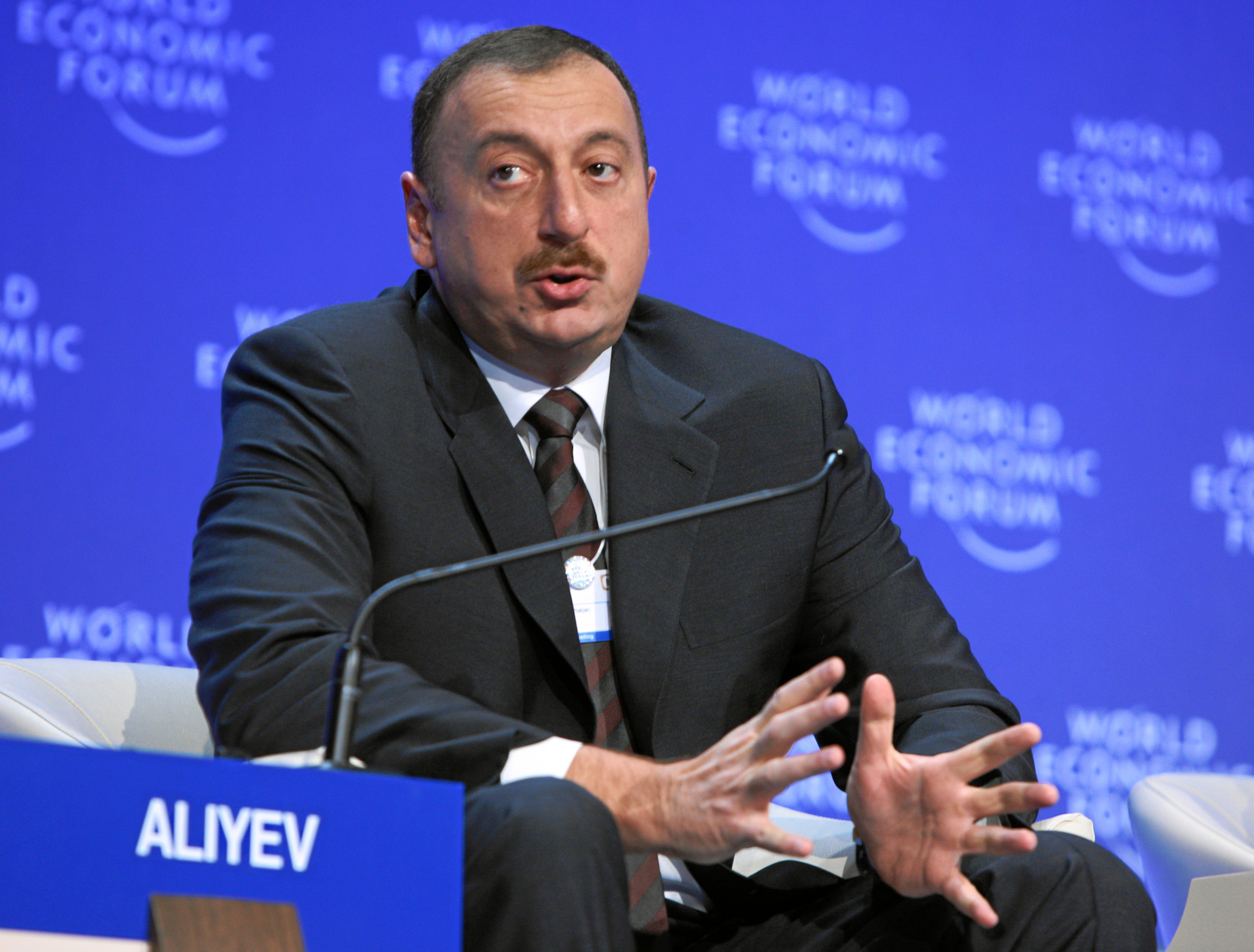 DAVOS-KLOSTERS/SWITZERLAND, 29JAN09 - Ilham Aliyev, President of Azerbaijan, is captured during the session 'Energy Outlook 2009' at the Annual Meeting 2009 of the World Economic Forum in Davos, Switzerland, January 29, 2009.